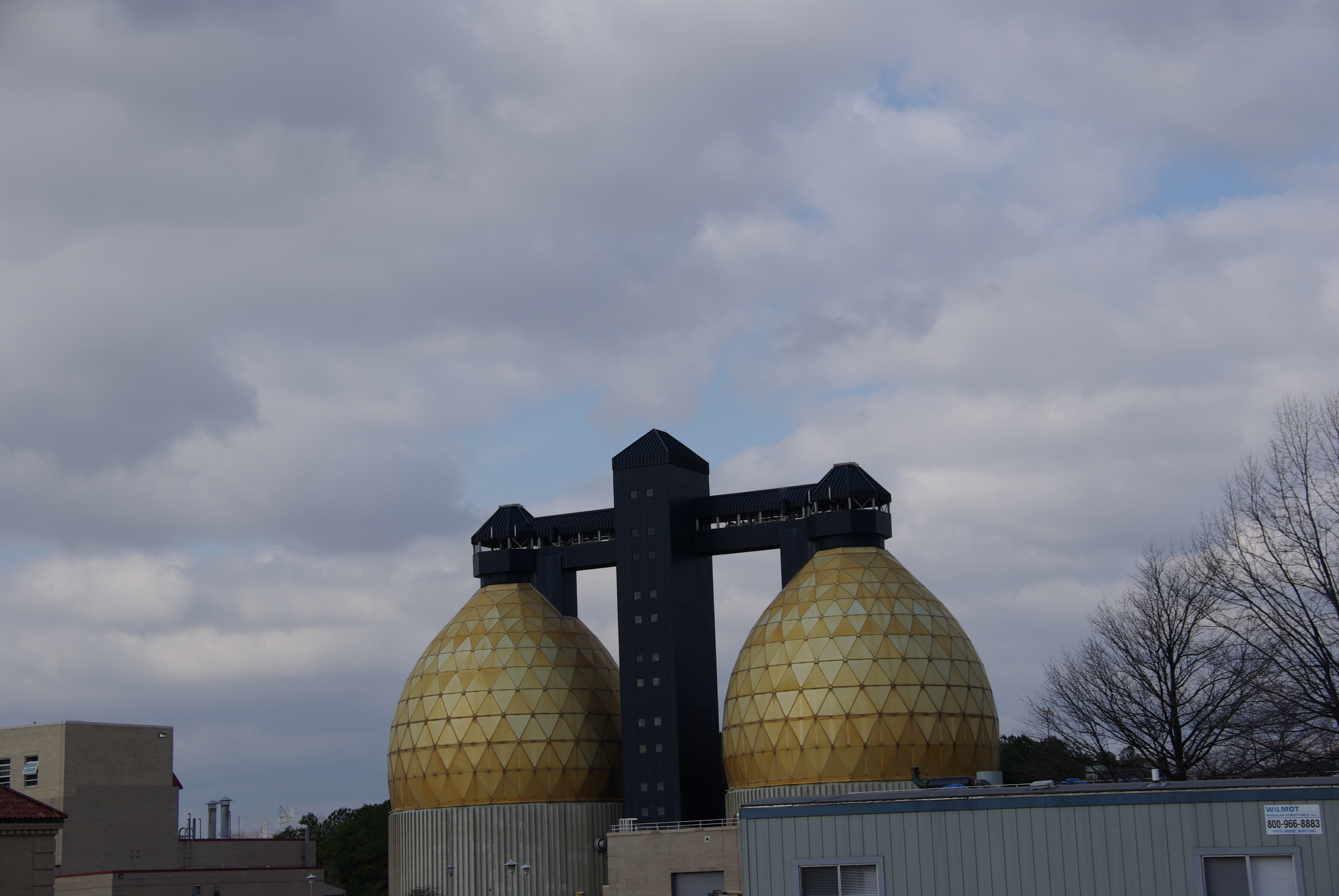 Egg shaped anaerobic digesters that each hold 3 million gallons of sludge. Back River Wastewater Treatment Plant, Baltimore, Maryland.